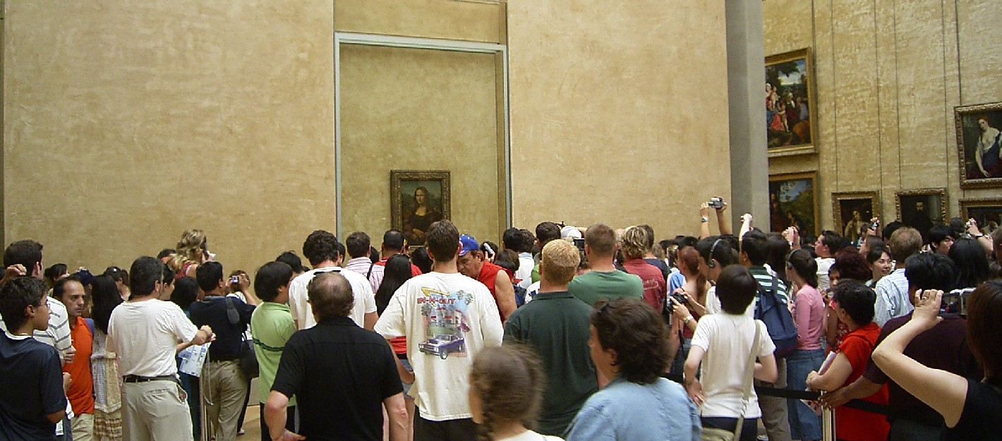 Crowd of people in fornt of the Mona Lisa